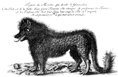 Translation of the text above the drawing : "Drawing of the monster that afflicts Gevaudan. This beast is the size of a young bull. It prefers to attack women and children. It drinks their blood, cuts their head off, and carries them away. 2700 francs are promised to who kills this animal." This engraving is supposed to be ante January 1765, when King Louis XV promised a reward of 6,000 livres tournois (the french currency of the time) to who will kill the beast, bringing the total rewards to 9000 livres tournois.